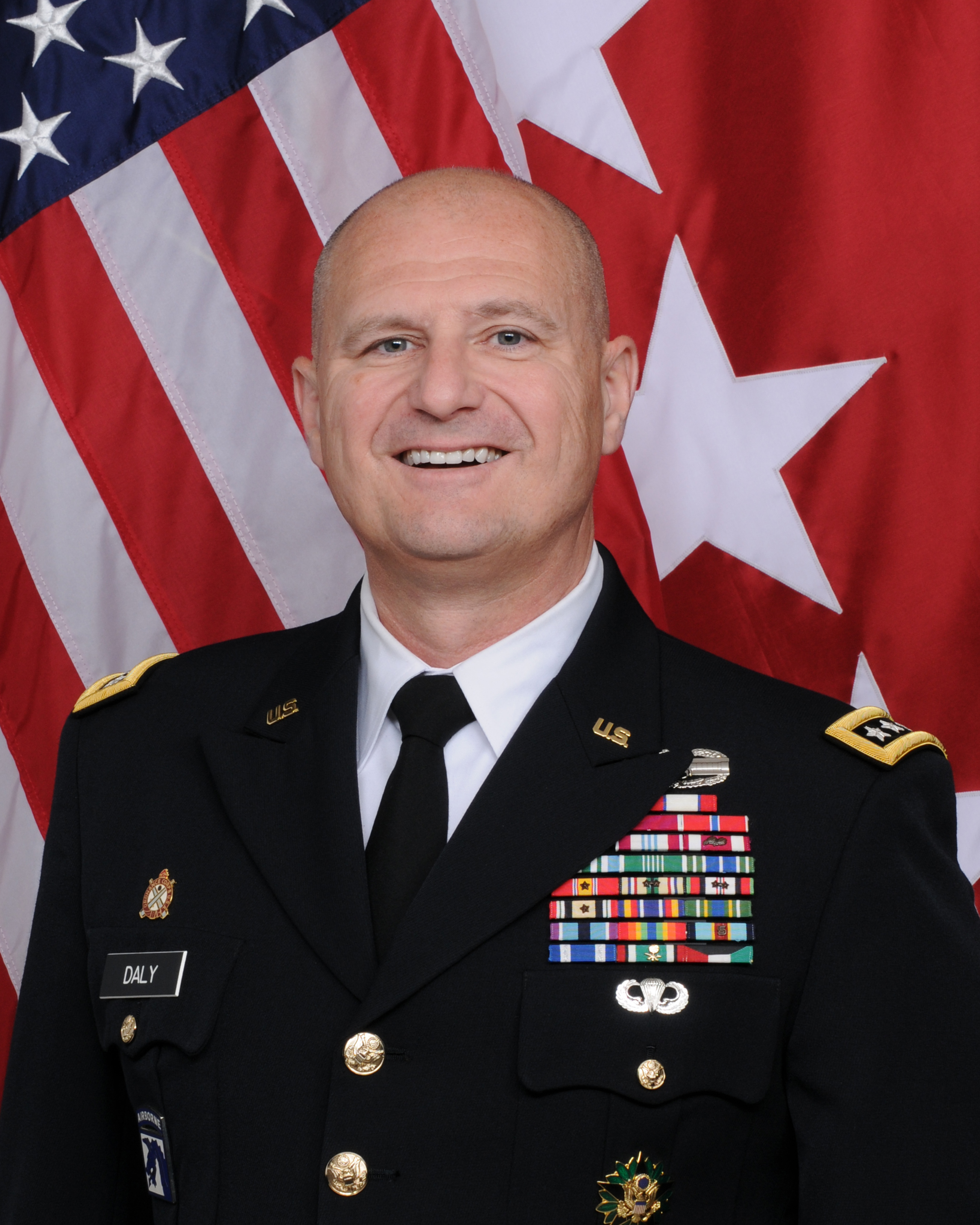 Gen. Edward M. Daly